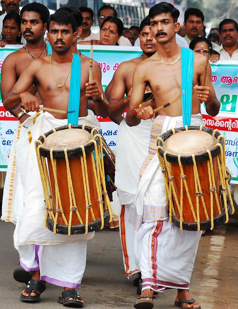 Chenda